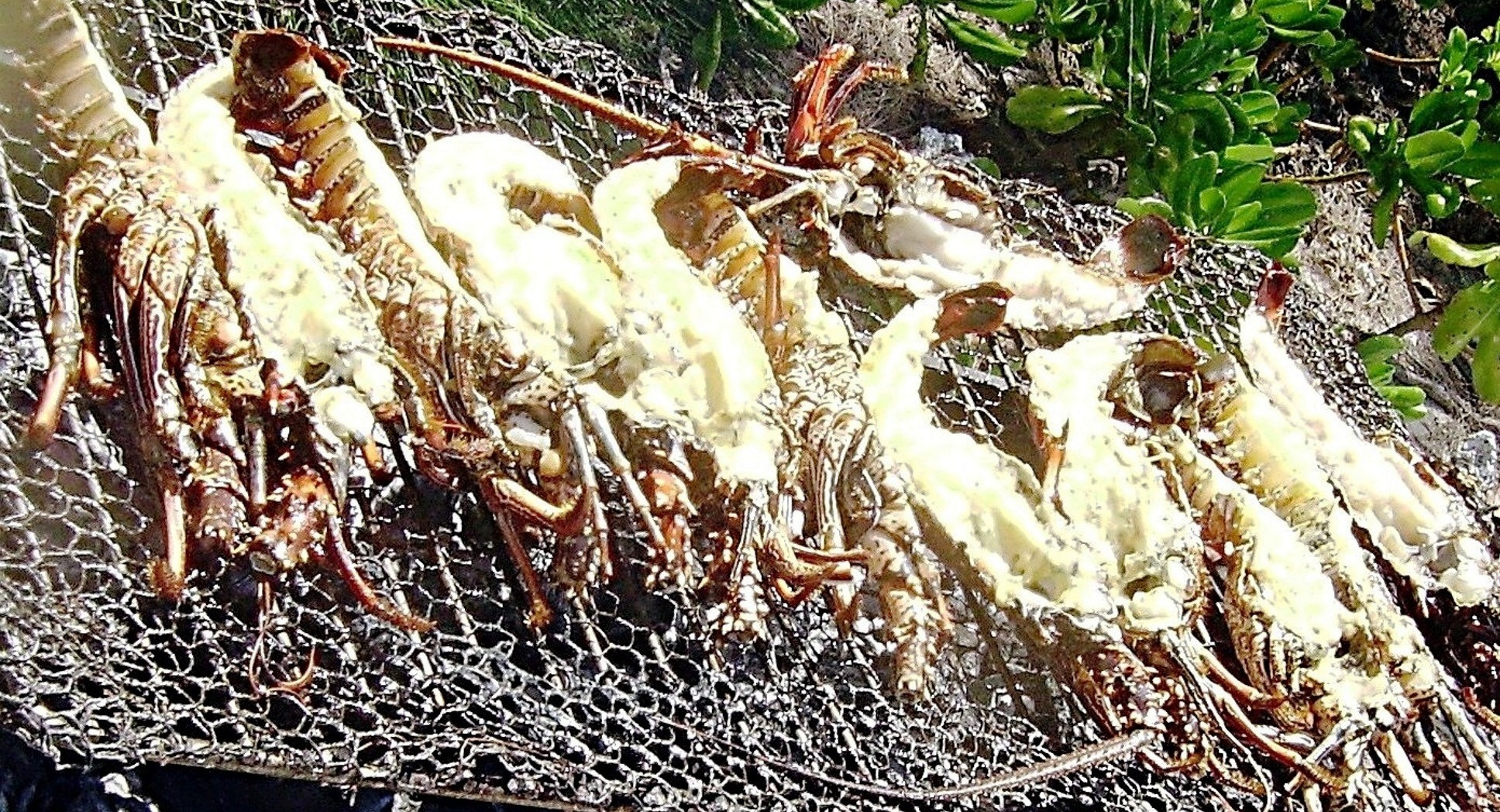 Olbia (Sardinia-Italy) Spiny lobsters barbecue